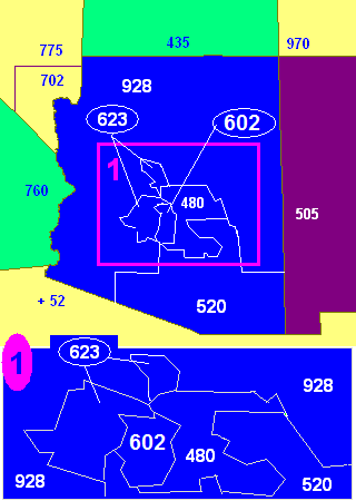 Map of Arizona telephone area codes in blue (and border states).